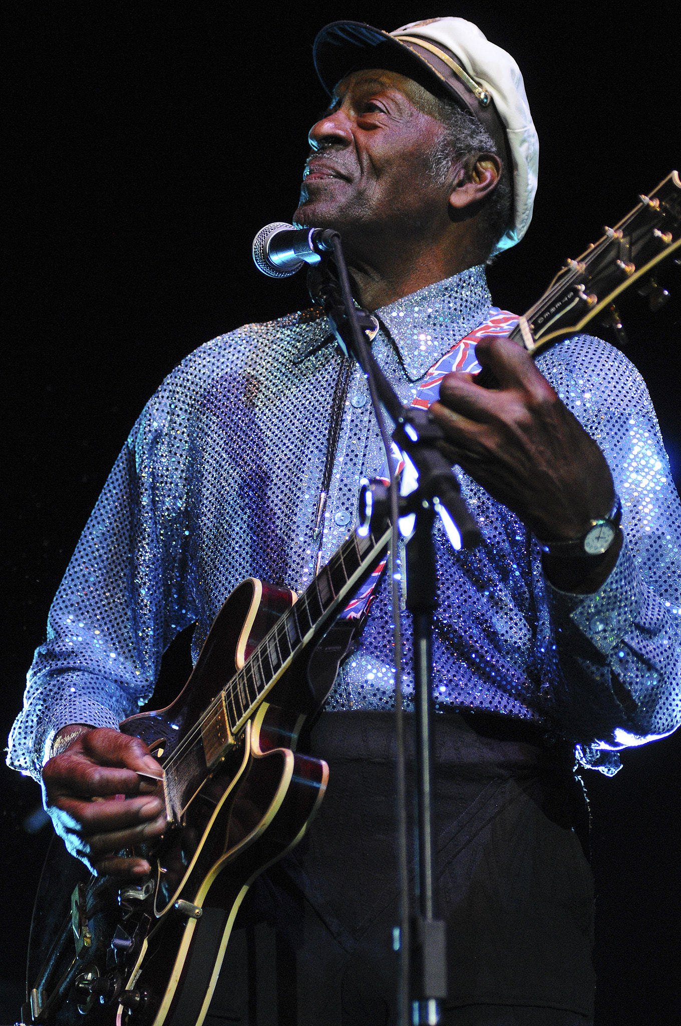 500px provided description: Chuck Berry [#old ,#concert ,#music ,#live ,#guitar ,#legend ,#Chuck Berry]